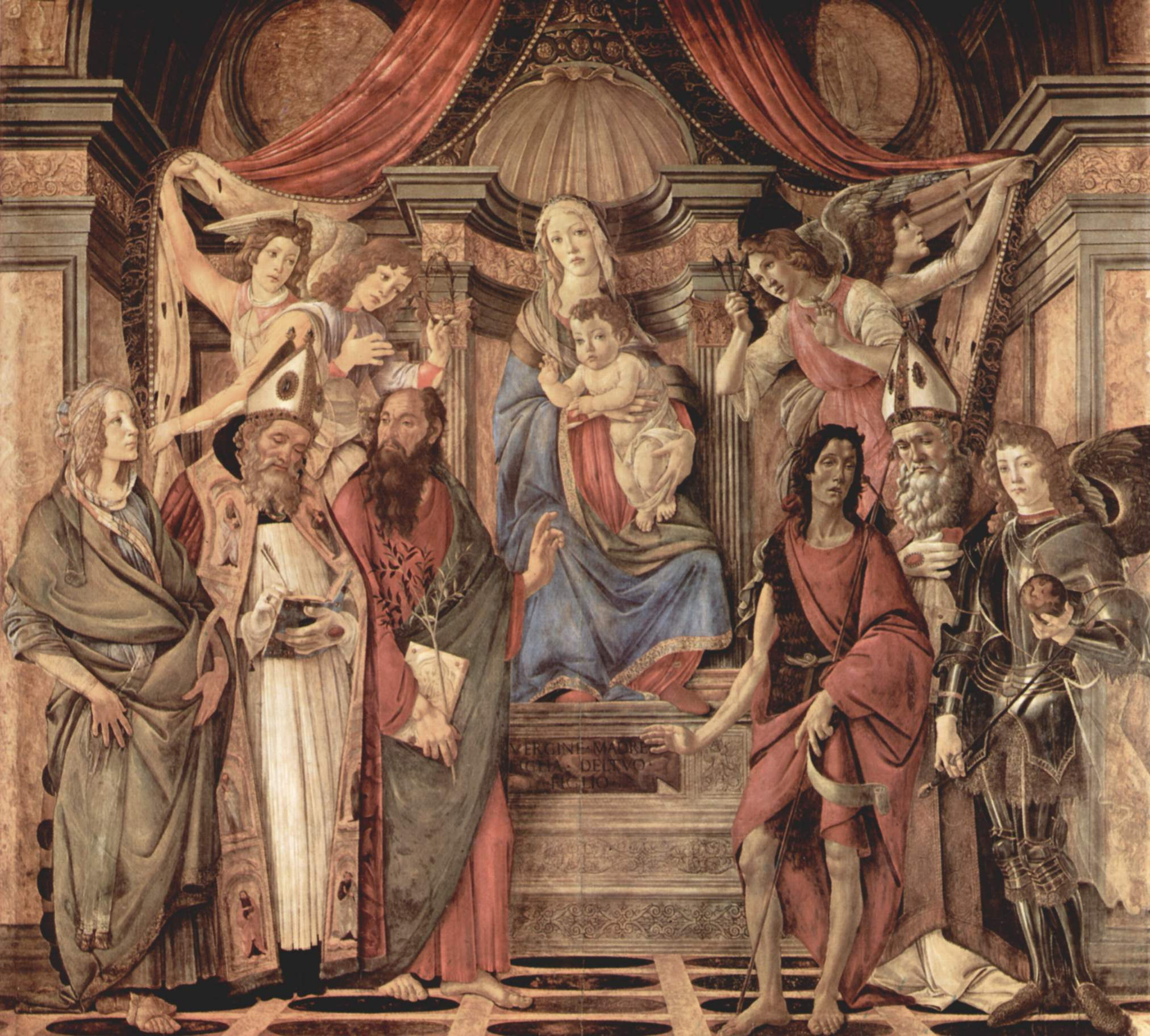 from left: Catherine of Alexandria, Augustine of Hippo, Barnabas, John the Baptist, Ignatius of Antioch and Michael the Archangel